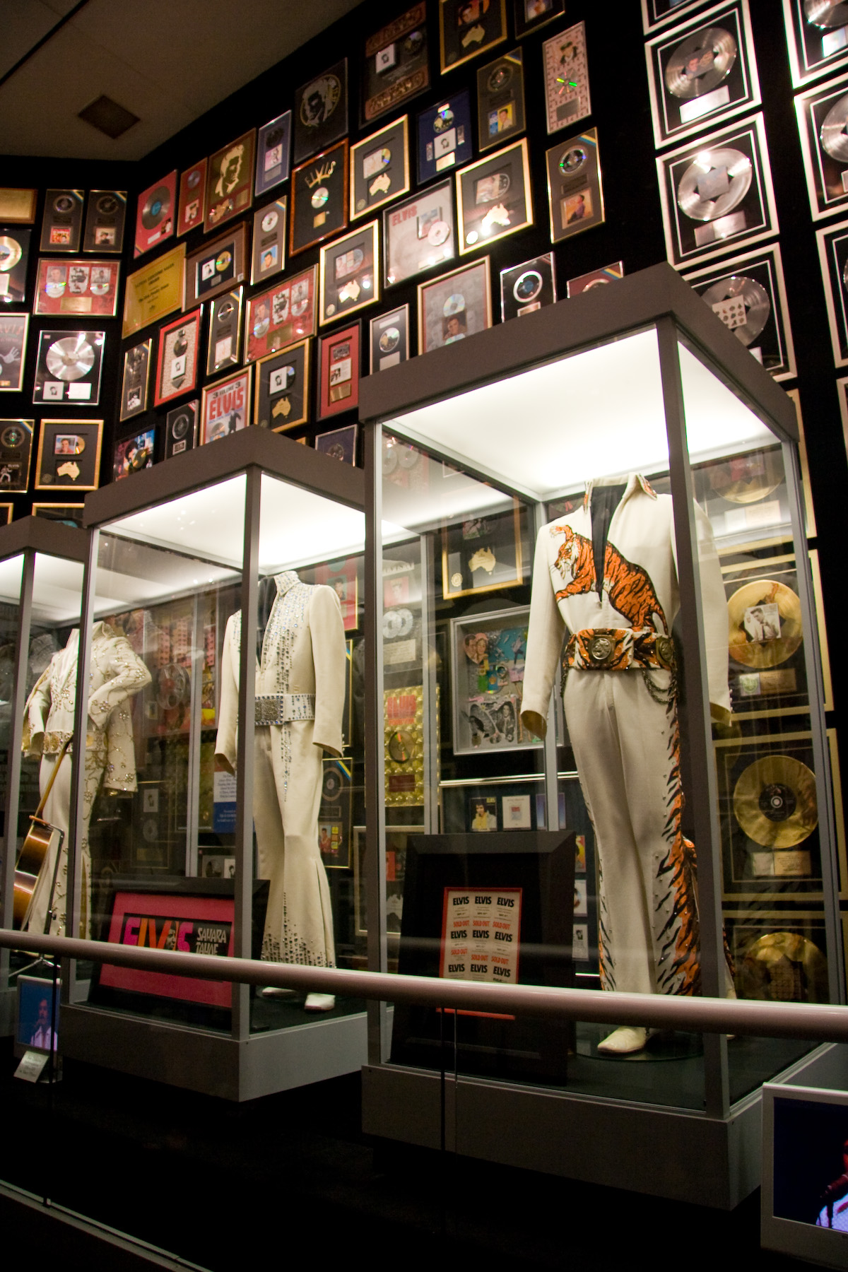 Trophy room at Elvis Presley's mansion, Graceland.